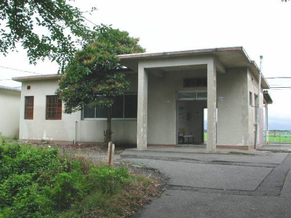 Kyōgase Station, Agano, Niigata, Japan